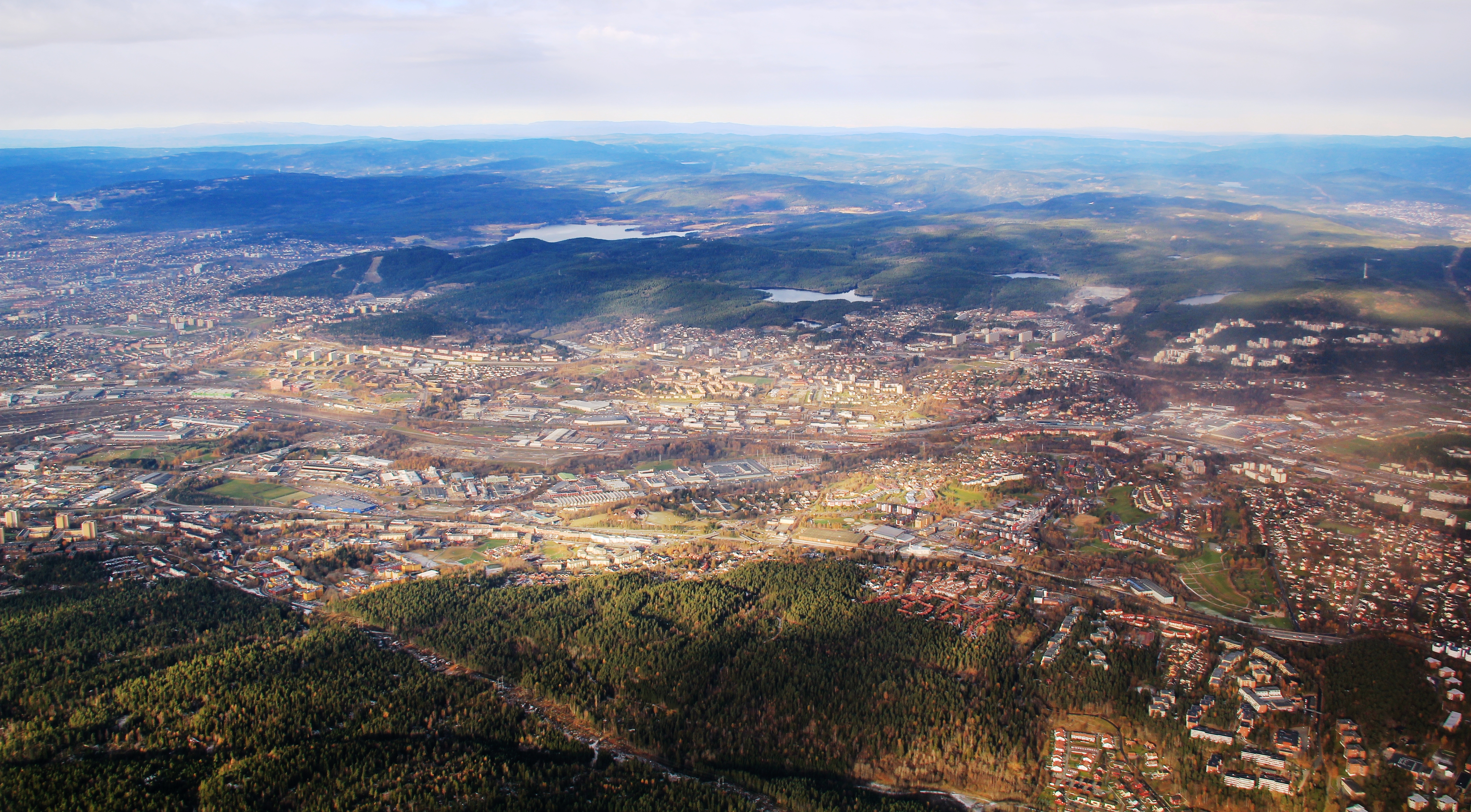 Aerial view of the Grorud valley (Norwgian "Groruddalen"), a district in the outer eastern parts of Oslo